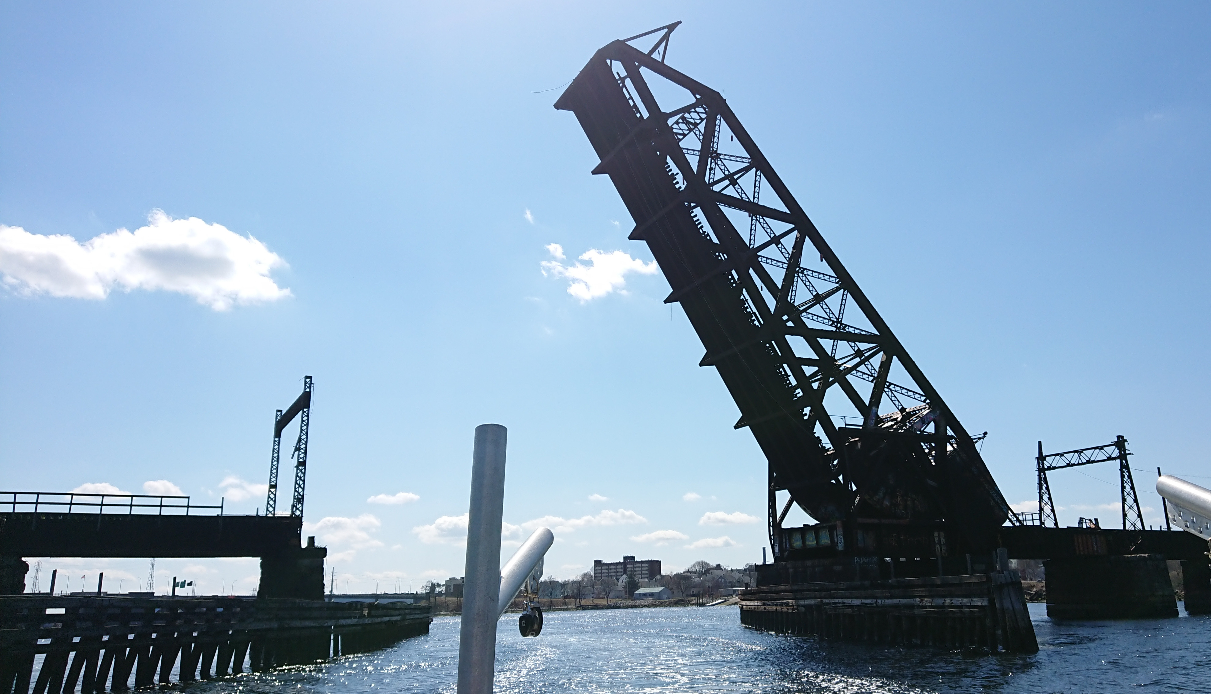 Draw span of the Crook Point Bascule Bridge viewed from the Seekonk River